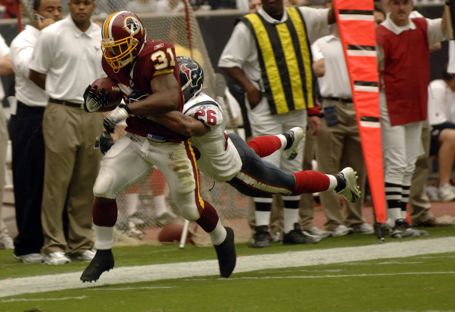 Washington Redskins running back Rock Cartwright is tackled by Houston Texans strong safety Glenn Earl during the Redskins 31-15 victory at Reliant Stadium in Houston Sept. 24. The Texans honored military servicemembers in their Salute to the Military day. (U.S. Air Force photo/Tech. Sgt. Cecilio M. Ricardo Jr.)